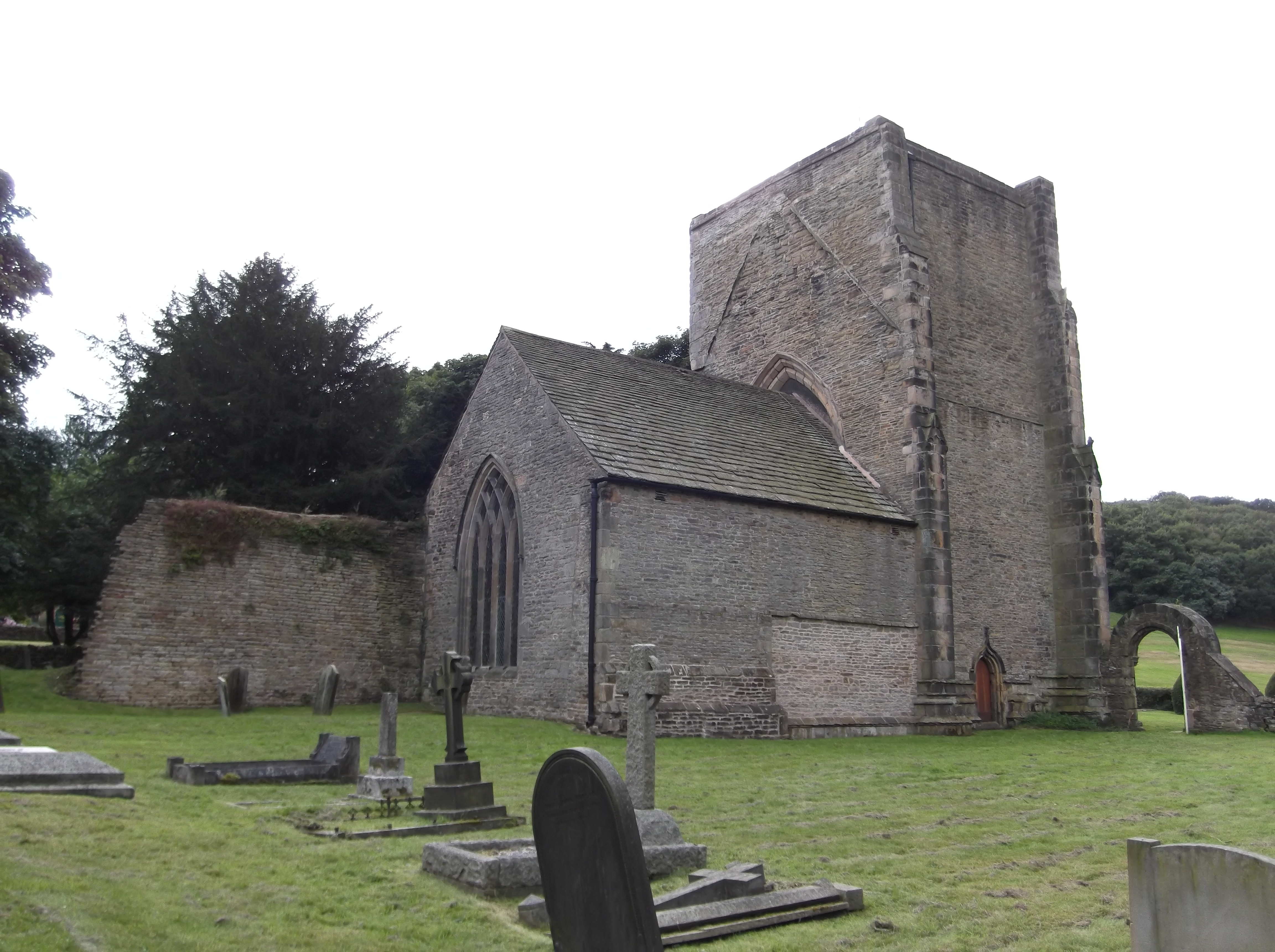 St Thomas of Canterbury's church, Beauchief Abbey, Sheffield, South Yorkshire, seen from the northeast